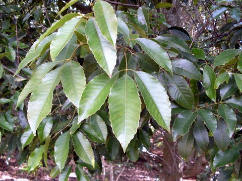 Geissois benthamiana foliage from Nightcap National Park